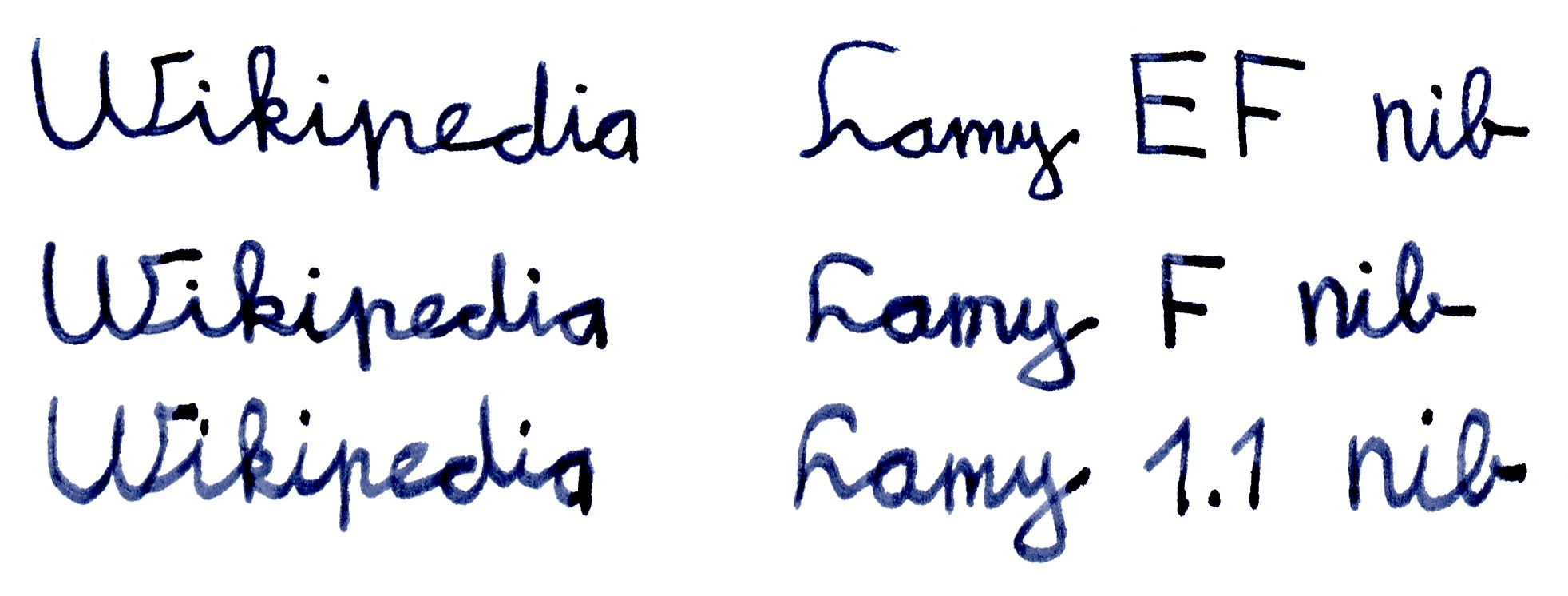 Lamy Fountain pen (using Lamy Z 50 EF (Extra Fine), F (Fine) and 1.1 (1.1 mm calligraphic stub italic) nibs writing samples written with blue-black Ecclesiastical Stationery Supplies Registrars Ink iron gall based fountain pen ink on copier paper. The top line was written first, the bottom line was written last. Ecclesiastical Stationery Supplies Registrars Ink is acidic (pH ≈ 2.0) and can be stored for 2 to 3 years at a reasonably even temperature, away from a heat source and direct sunshine/light. Direct sunshine/light will cause the ink to break down and throw a sediment.